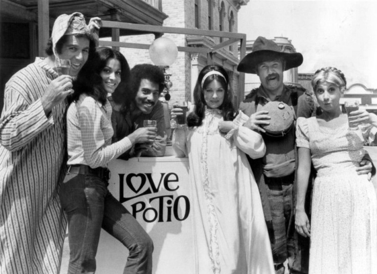 The 1973 ensemble cast from the televison program Love, American Style. From left: Jed Allan, Tracy Reed, James A. Watson, Jr., Phyllis Elizabeth Davis, James Hampton, and Barbara Minkus.